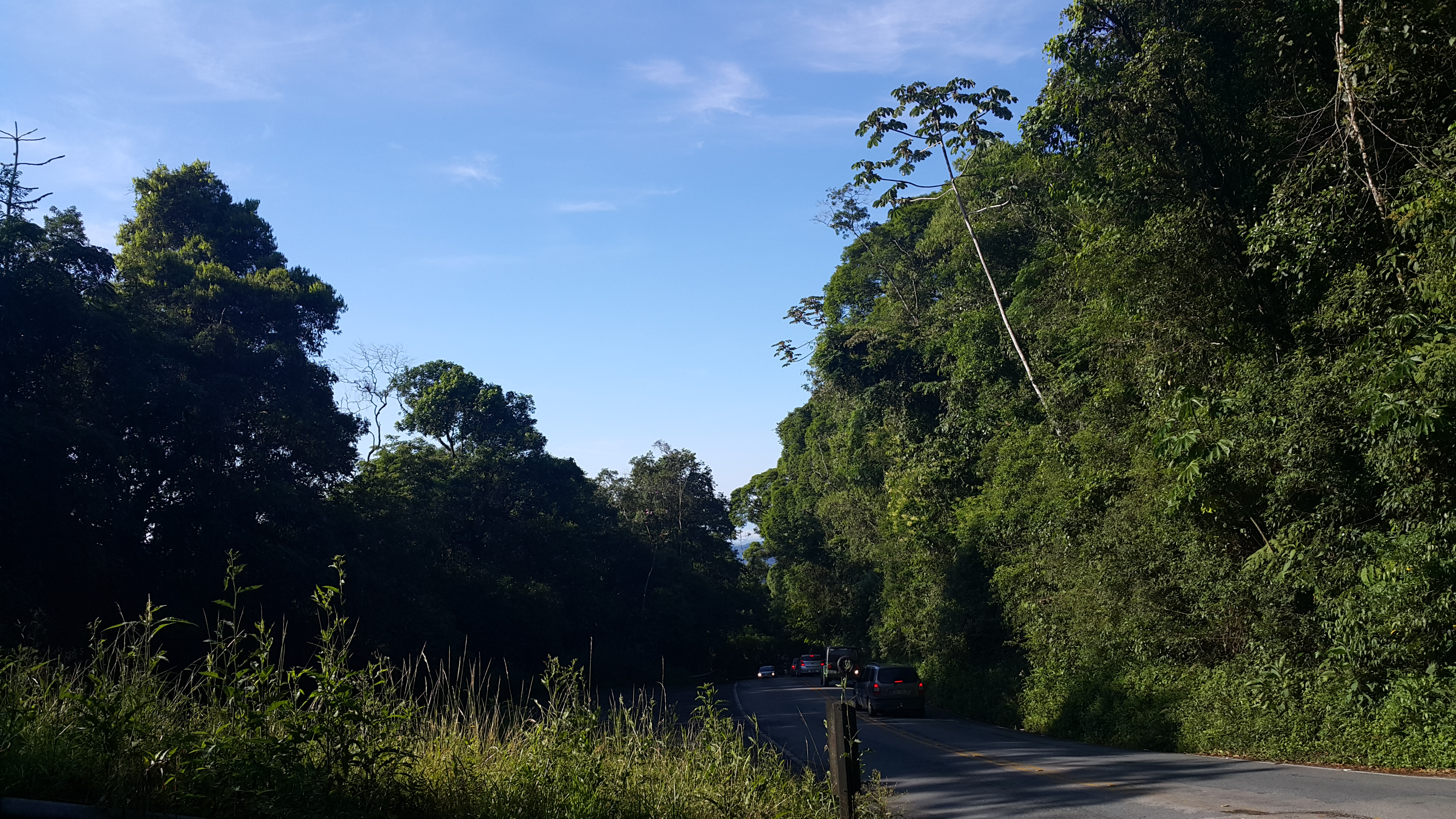 The mountainous stretch of Oswaldo Cruz highway, with vegetation of the surrounding Atlantic Forest. Serra do Mar State Park (Picinguaba core), Ubatuba, São Paulo, Brazil.